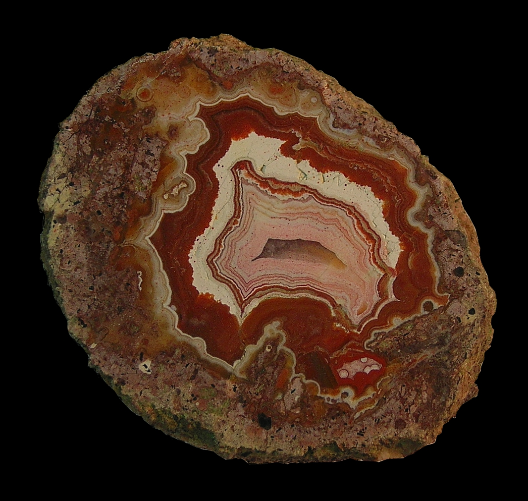 An agate from Nowy Kościół (Sudetes Mts., Poland). The maximum length of the agate-bearing nodule is 4.2 cm